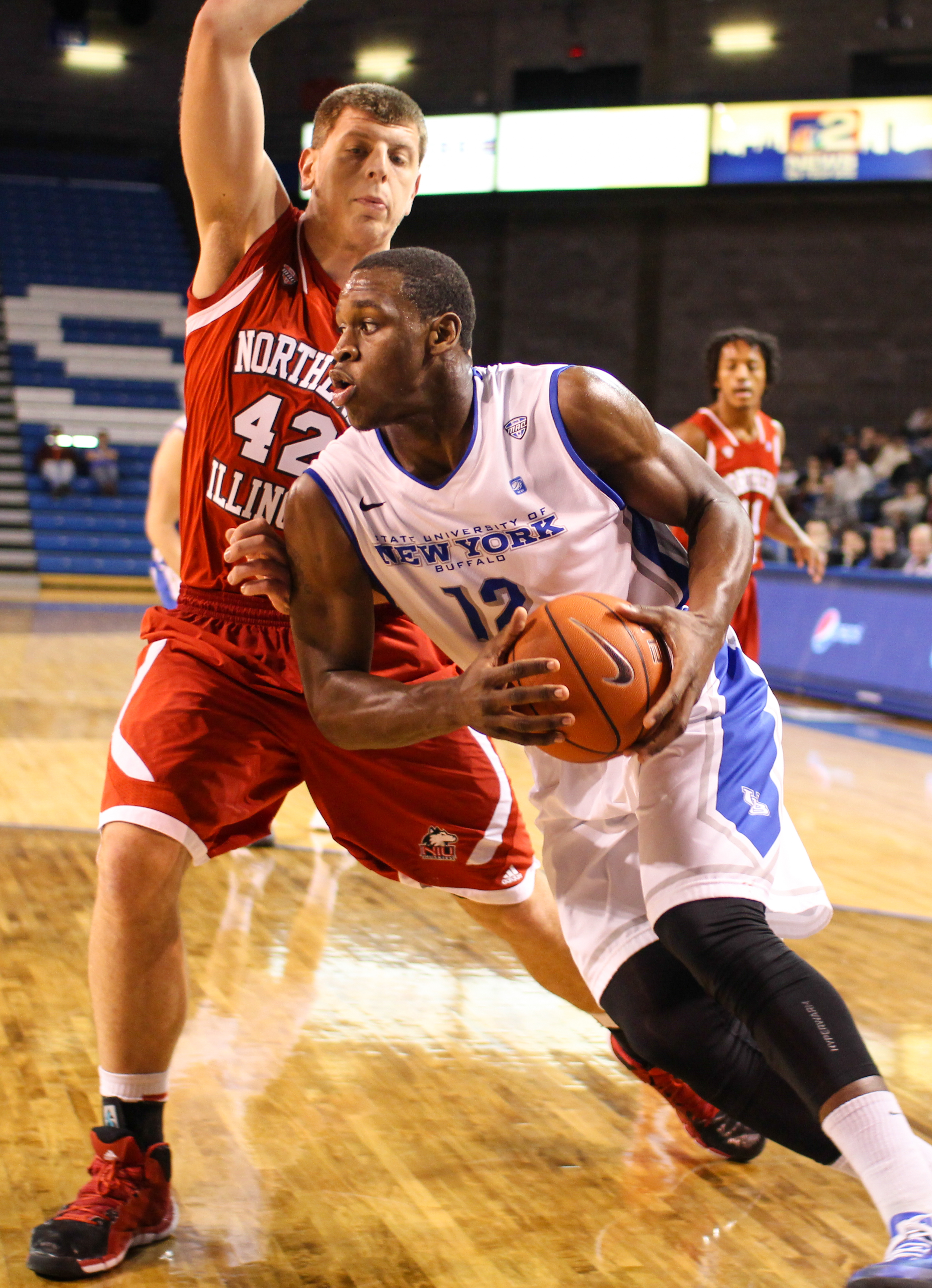 UB Bulls defeat Northern Illinois 67-46